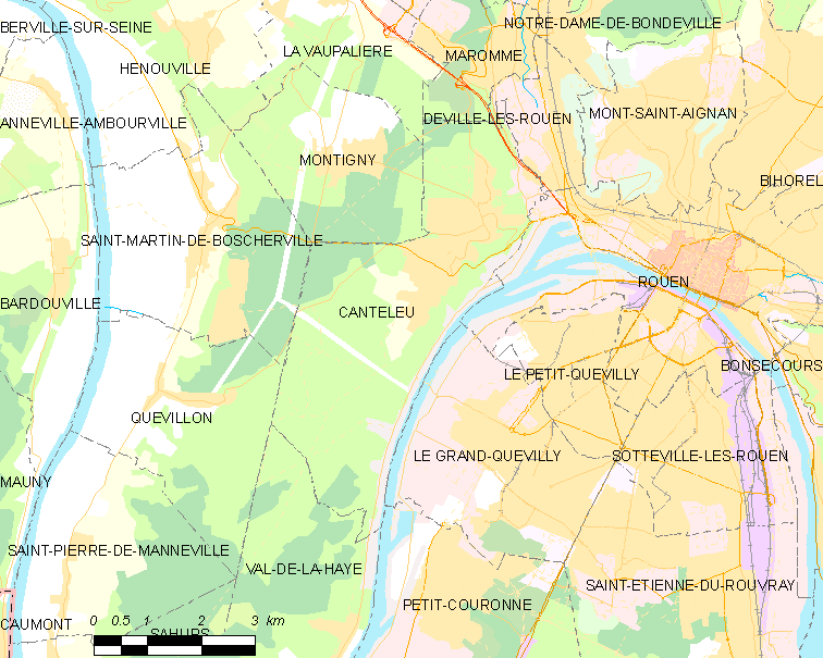 Map of French municipality Canteleu